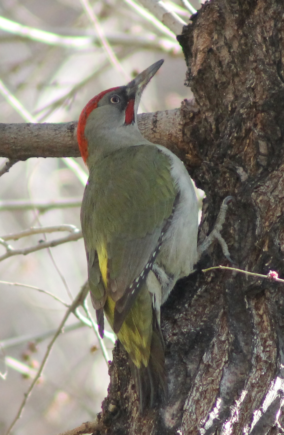 A male Iberian Woodpecker (Picus sharpei) in Madrid (Spain).